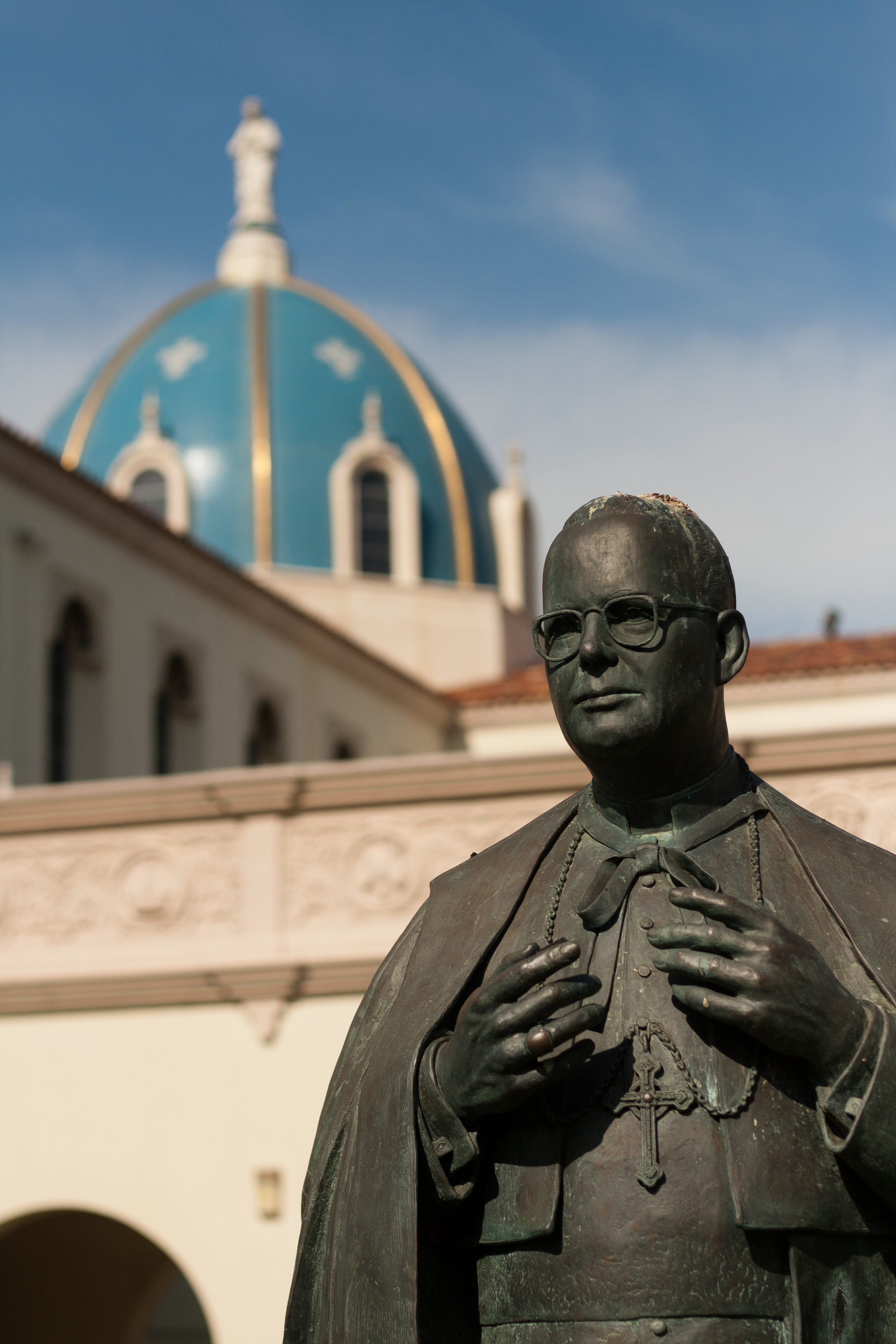 Statue of Bishop Charles Francis Buddy on the campus of the University of San Diego, San Diego, CA, USA.